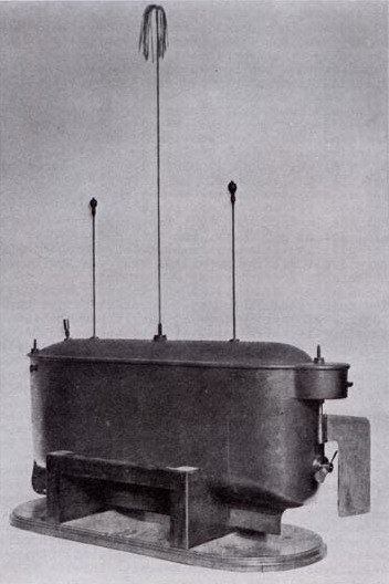 Arrangements for Receiving. Tesla demonstrated a radio-controlled boat (U.S. Patent 613,809 — Method of an Apparatus for Controlling Mechanism of Moving Vehicle or Vehicles) of November 8, 1898. Application filed July 1, 1898. (Article, The Problem of Increasing Human Energy, "Century Magazine", Jun 1900, Fig. 2, p. 185.)